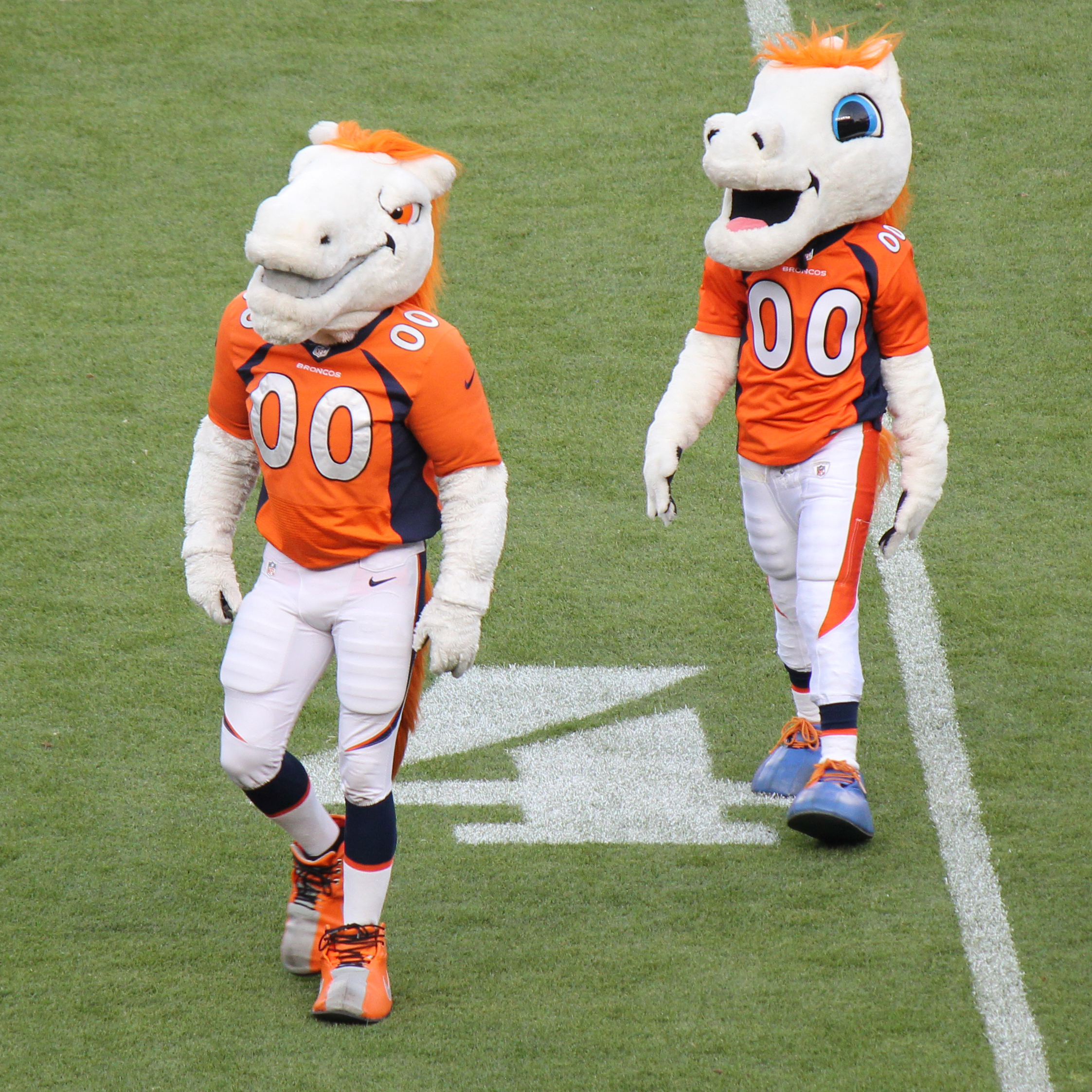 "Miles," the mascot for the Denver Broncos American Football Team (left). It is unclear whether the mascot on the right (with blue shoes and eyes) is also Miles or whether this mascot has a separate identity.